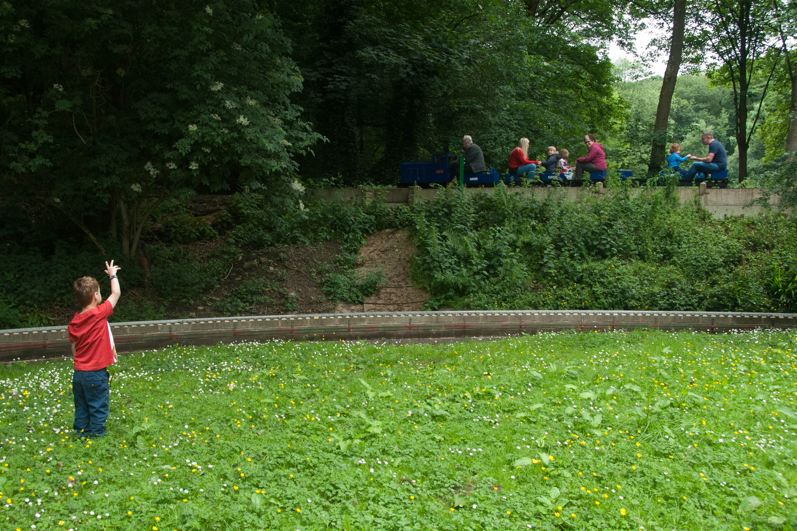 The engine is named 'Amos' and is on the Bradford Model Engineering Society's demonstration line in Northcliffe Woods, Shipley, West Yorkshire. The shorter raised loop is in the foreground.